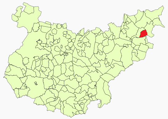 Garbayuela